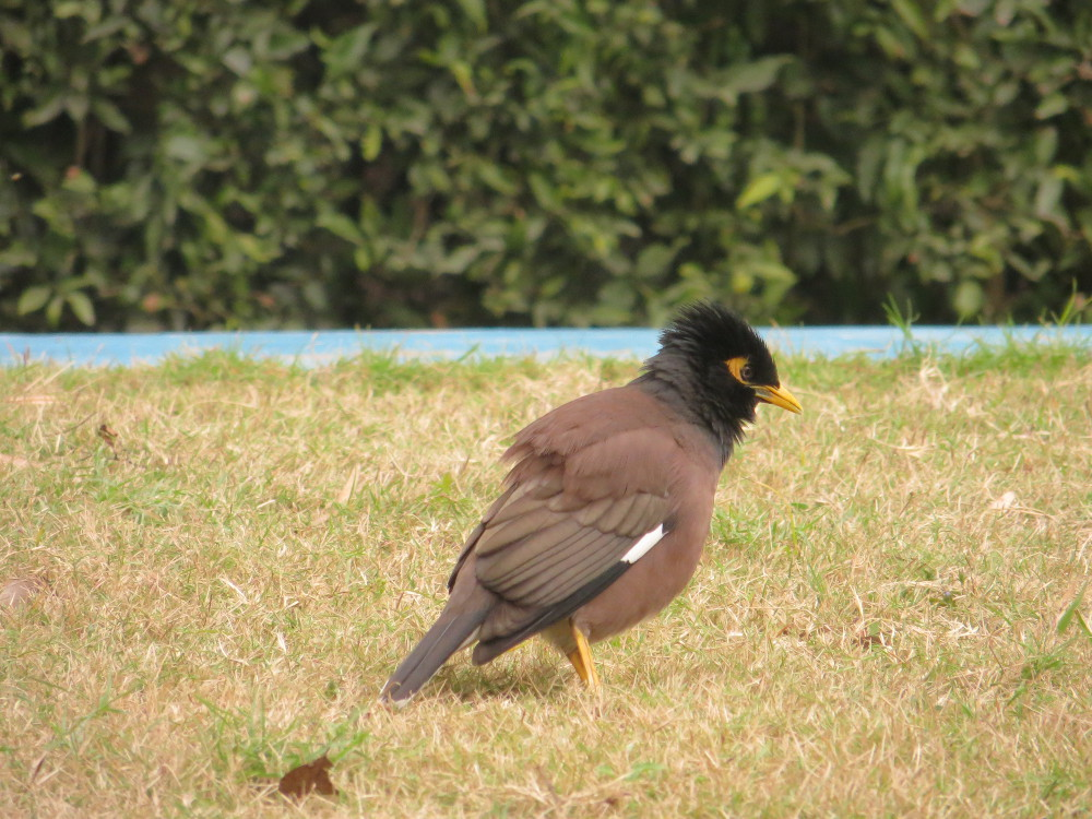 Common Myna (Acridotheres tristis) basking at Central Park, Kolkata, West Bengal, India